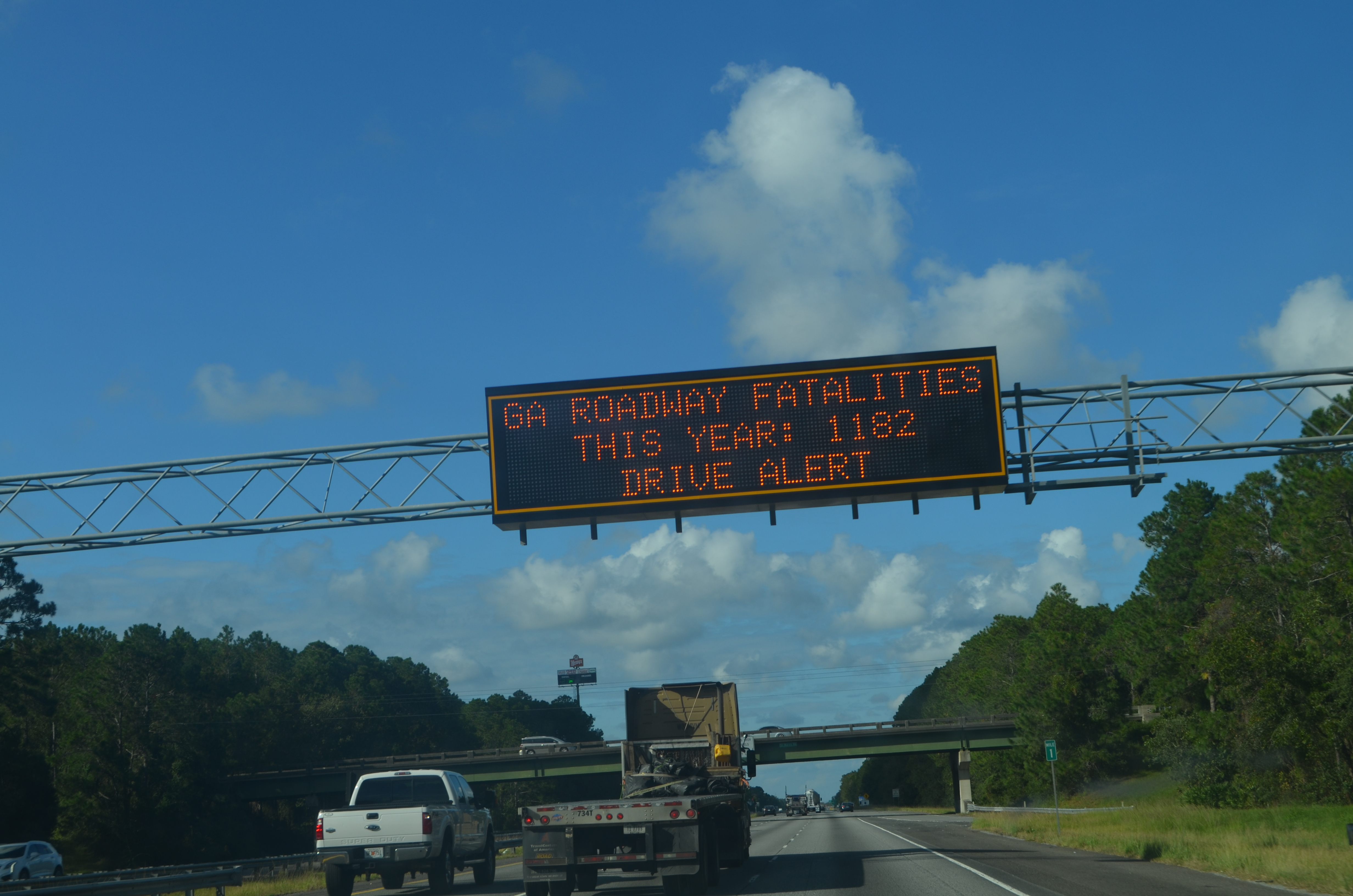 Electric variable sign over Interstate 95 in Georgia. This would be an average of three or four traffic deaths a day in a state of about 10 million.